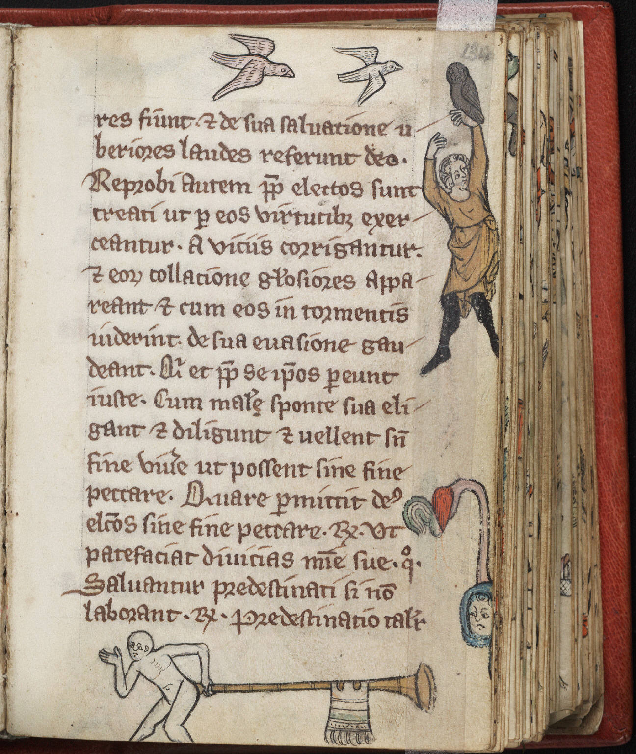 Page/Caption: 134r Author/Creator: Date: s. XIII/XIV Physical Description: 1 vol. 12 x 8.5 cm. Genre/Form: Illuminated manuscripts Miniatures (Illuminations) Historiated initials Illustrations Hand coloring Prayers Cite as: Beinecke Rare Book and Manuscript Library, Yale University Repository: Beinecke Rare Book & Manuscript Library, Yale University Bibliographic Record Number: 2002755 Call Number: MS 404 View our Record: Permalink